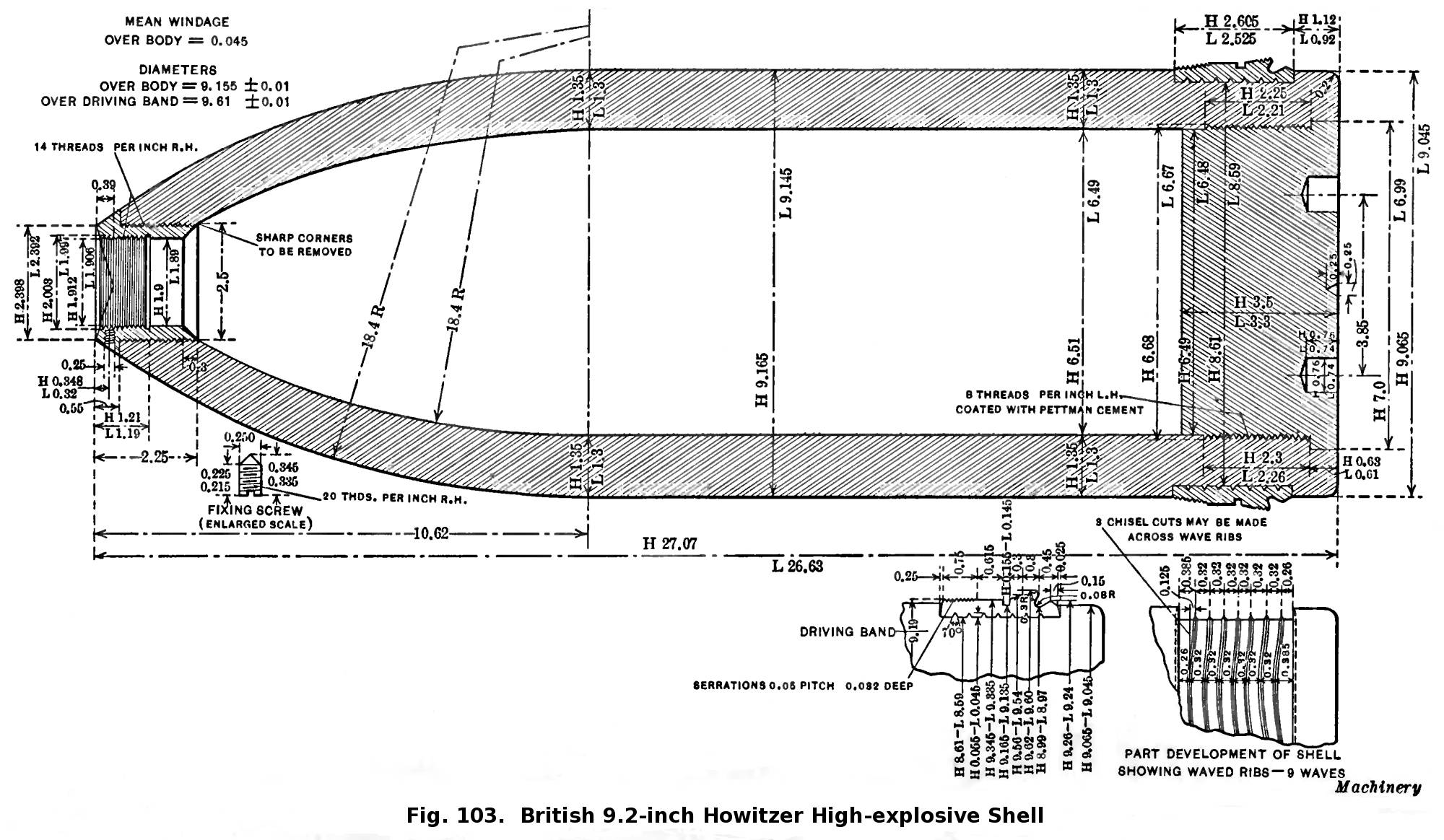 Diagram showing dimensions of Mk II High Explosive shell for British 9.2 inch howitzer, 1916.